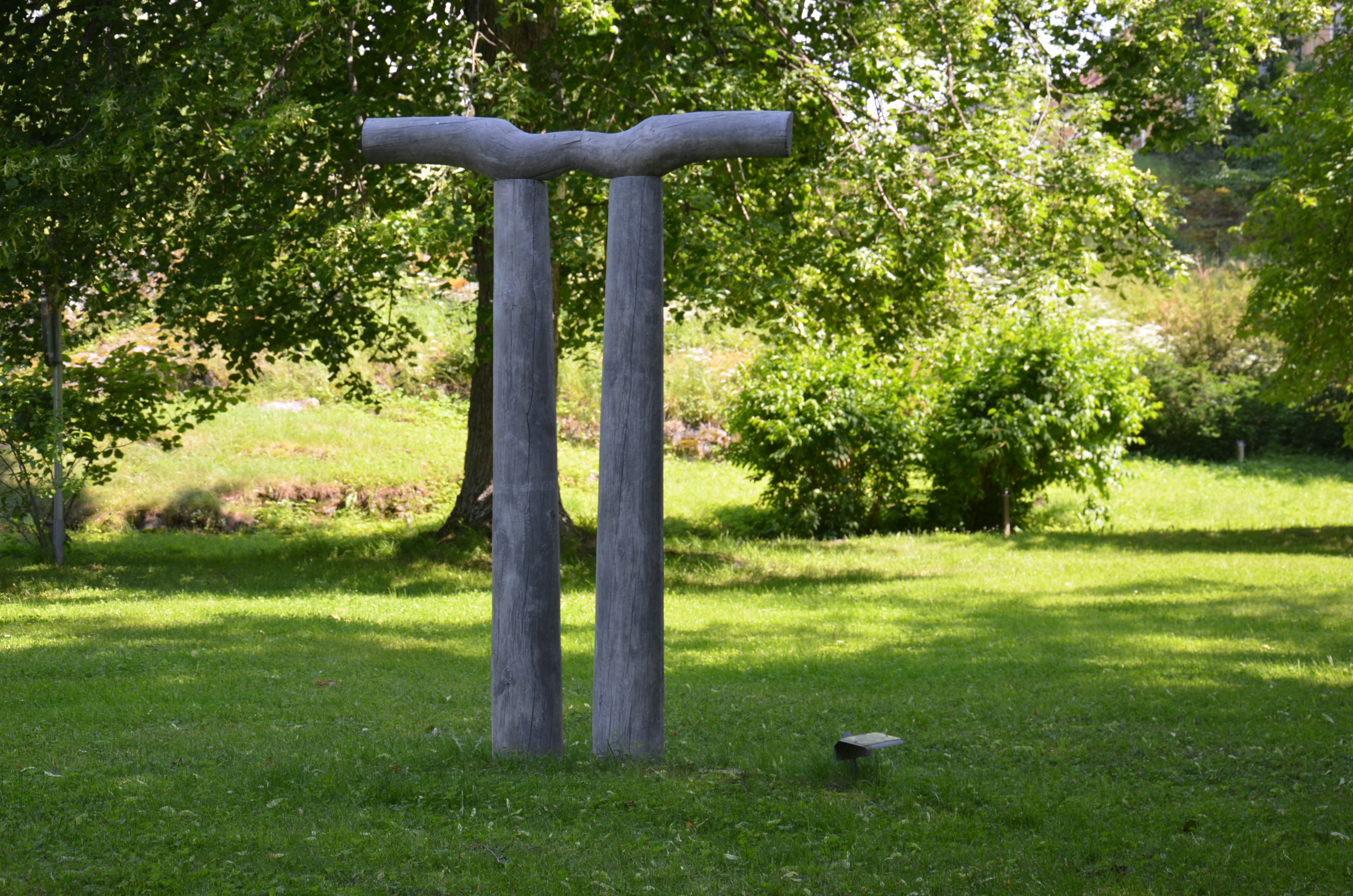 Hanns Karlewskis Torii, trä, 2000, Görvälns slotts skulpturpark